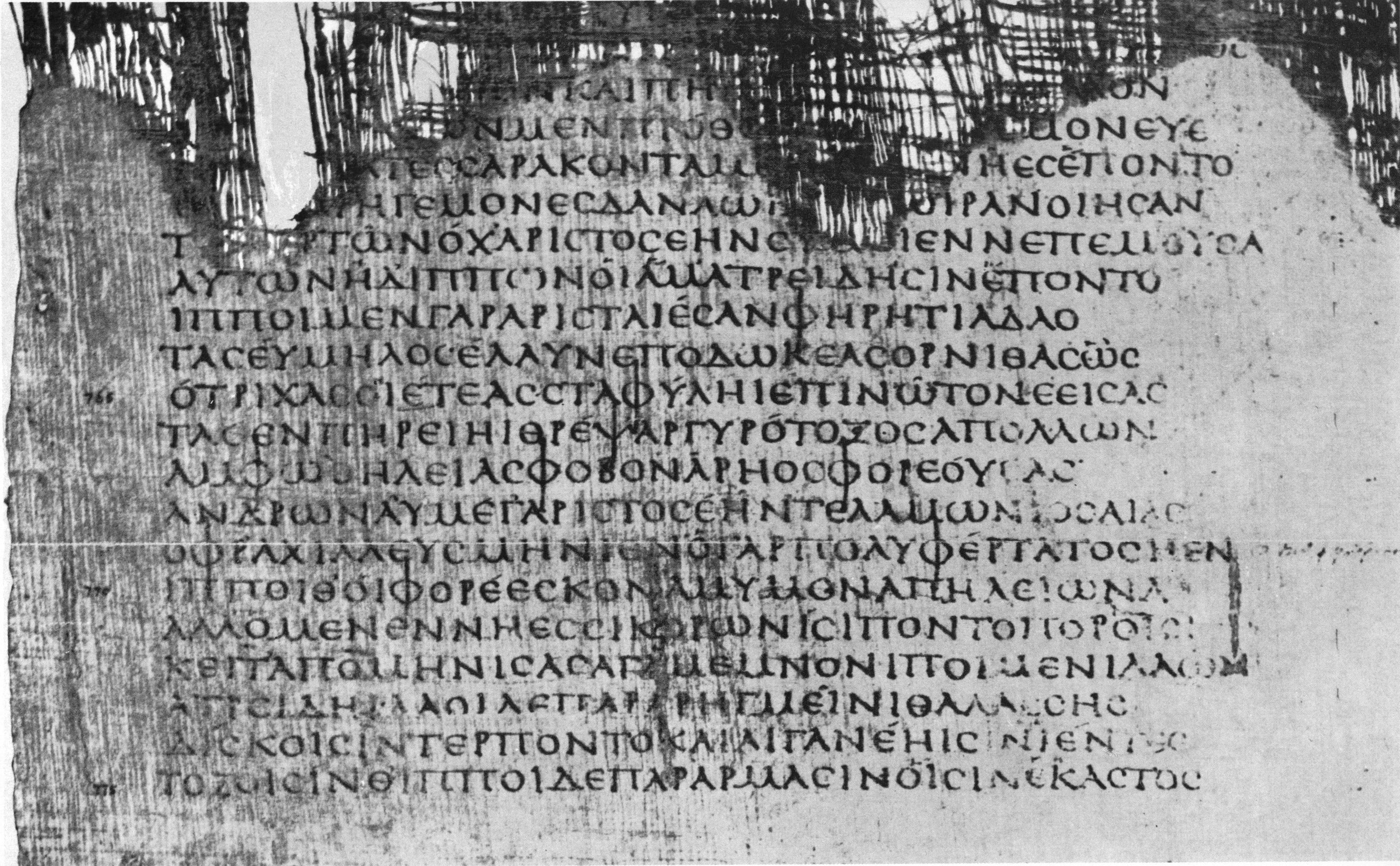 Homer, Iliad II 757–775. Oxford, Bodleian Library, Papyrus Hawara 24–28.